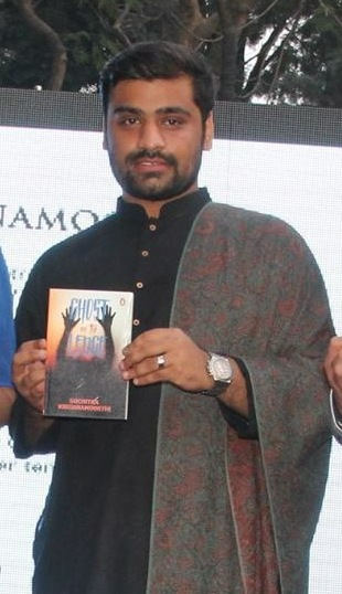 Dehradun Literature Festival